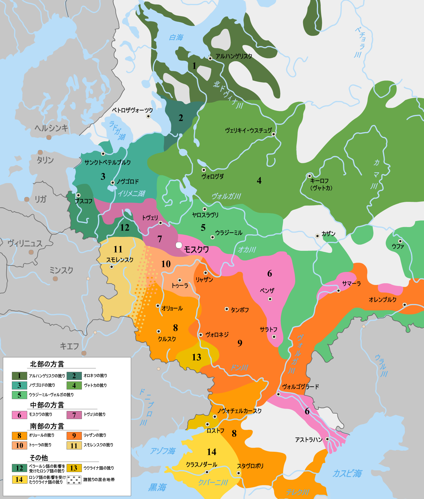 Dialects of Russian language Northern dialects 1. Arkhangelsk dialect 2. Olonets dialect 3. Novgorod dialect 4. Viatka dialect 5. Vladimir dialect Central dialects 6. Moscow dialect 7. Twer dialect Southern dialects 8. Orel (Don) dialect 9. Ryazan dialect 10. Tula dialect 11. Smolensk dialect Other 12. Northern Russian dialect with Belarusian influences 13. Sloboda and Steppe dialects of Ukrainian language 14. Steppe dialect of Ukrainian with Russian influences